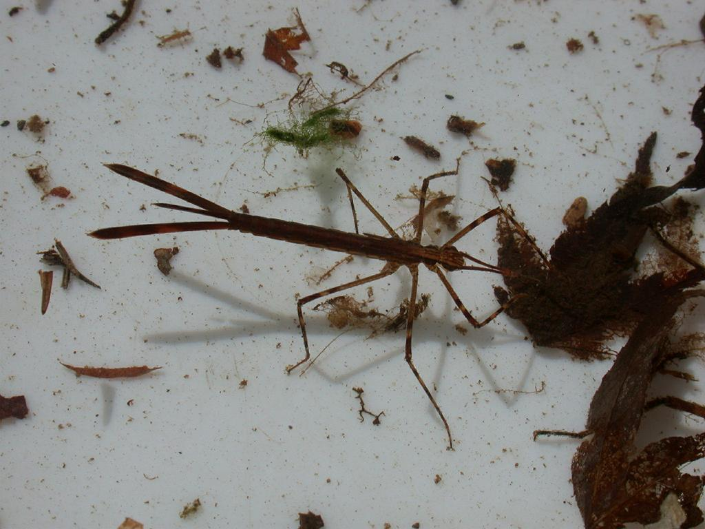 Calopteryx cornelia(Calopterygidae);larva Japanese name:Miyamakawatonbo_no_Yago Date;2007,03;Tanabe city, Wakayama prefecture, Japan Author;Keisotyo